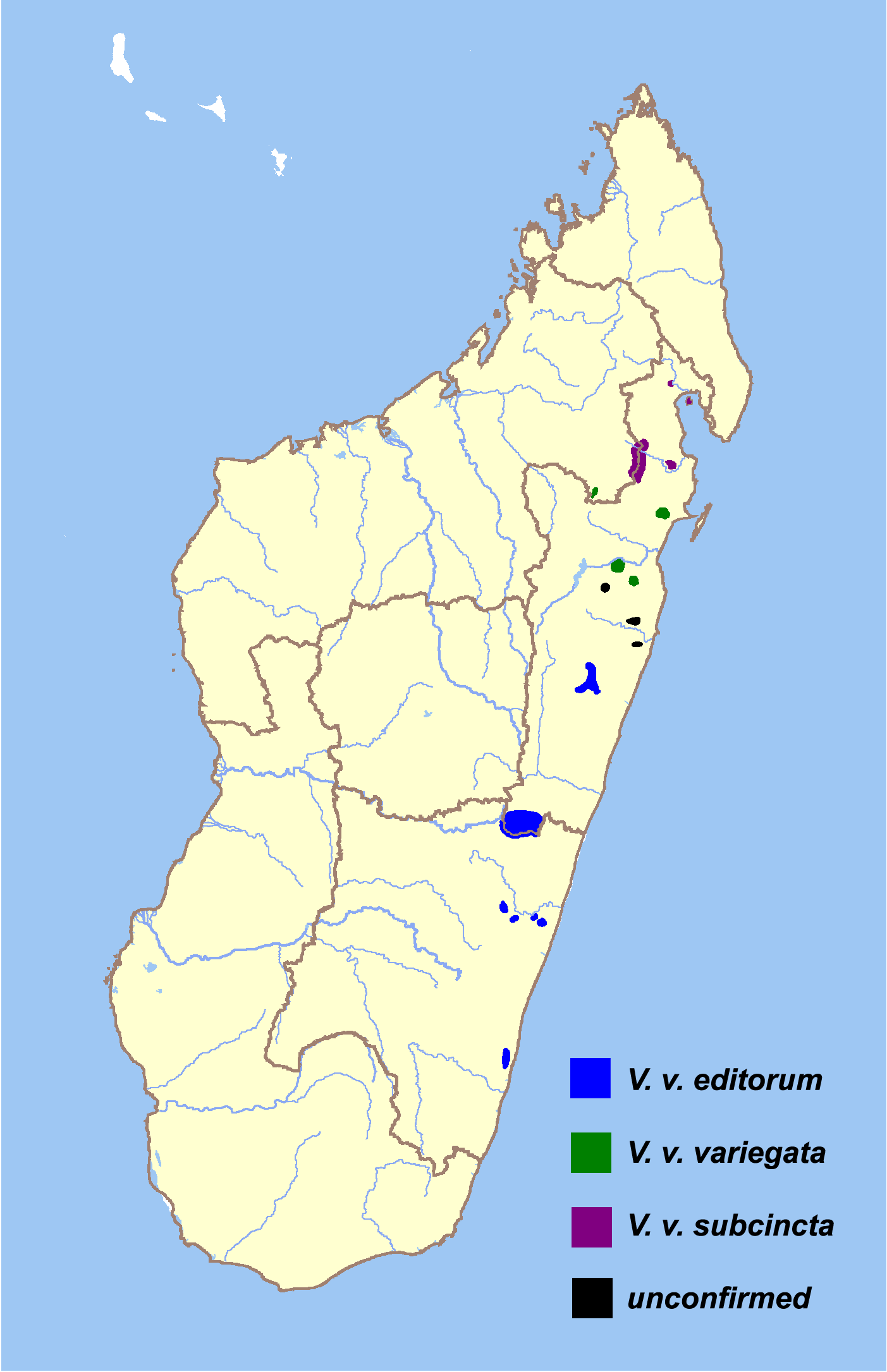 Distribution of the Black-and-white Ruffed Lemur (Varecia variegata) in Madagascar, based on map from "Lemurs of Madagascar, 2nd edition" by Russell A. Mittermeier, et al.